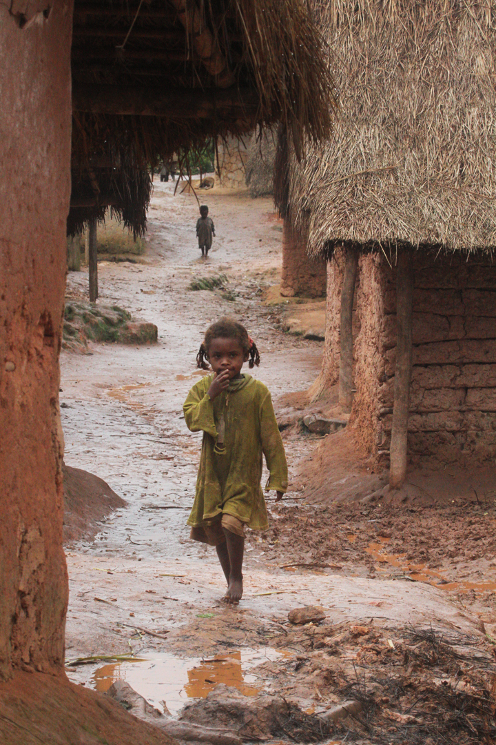 People of Madagascar.